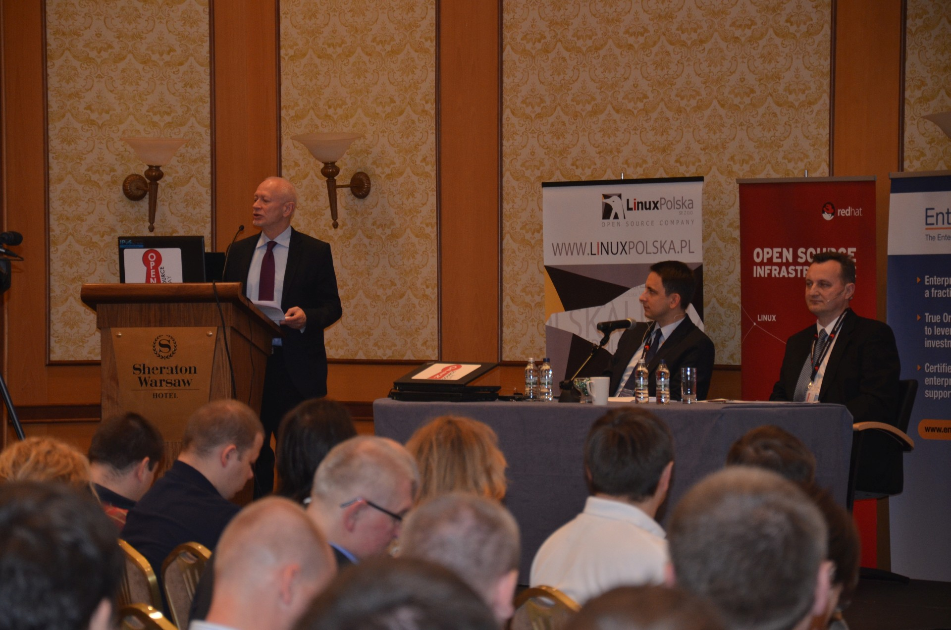 Polish Minister of Administration and Digitization having a keynote at Open Source Day in 2013 in Warsaw